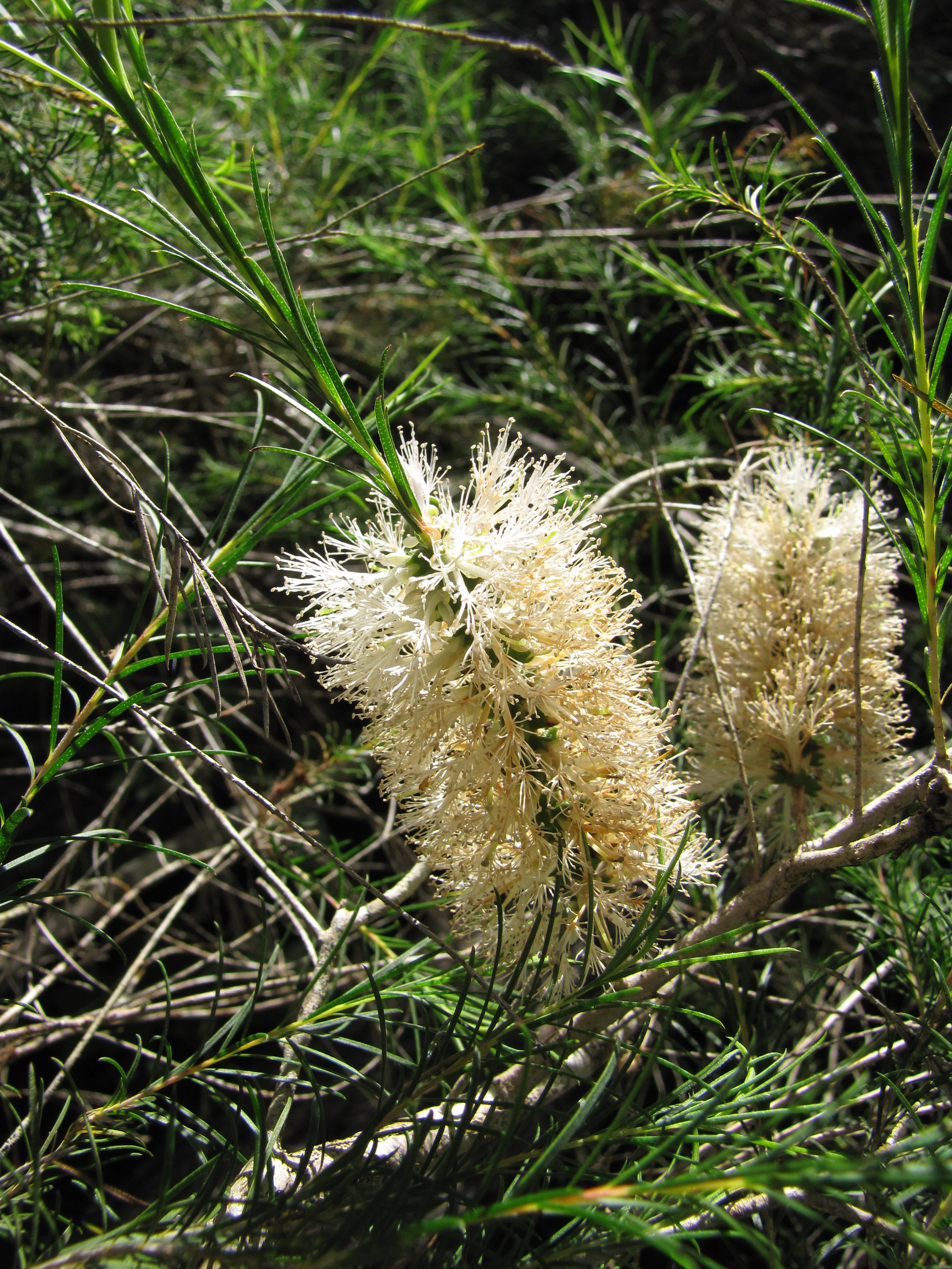 Melaleuca armillaris (Bracelet honey myrtle) Flowers and leaves at Shibuya Farm Kula, Maui, Hawaii. March 31, 2011 #110331-4424 Image Use Policy